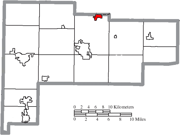 Map of the municipal and township boundaries of Auglaize County, Ohio, United States, as of the 2000 census, with the location of the village of Cridersville highlighted. Township borders are shown only in unincorporated areas in order to differentiate incorporated and unincorporated areas more clearly.